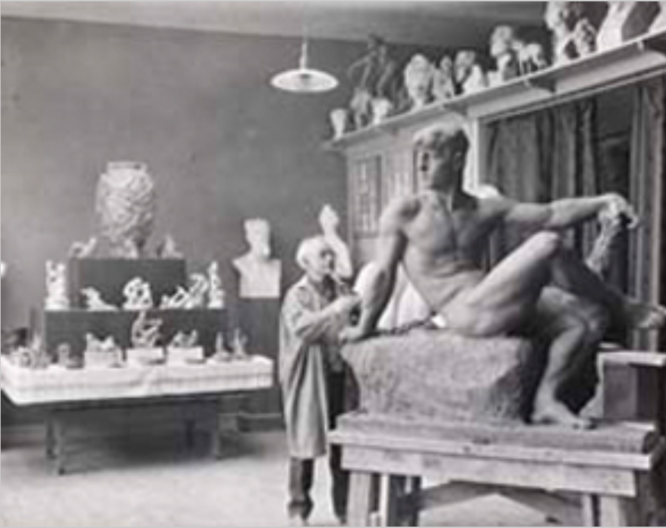 Jens Jacob Nielsen Bregnø in his studio.